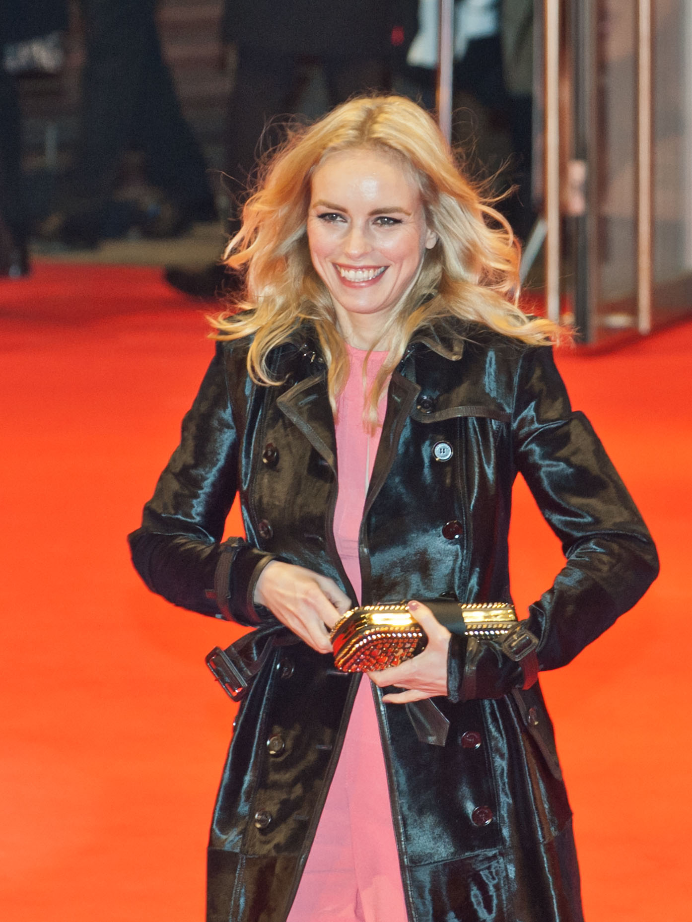 German Actress Nina Hoss at the Berlin Film Festival 2013